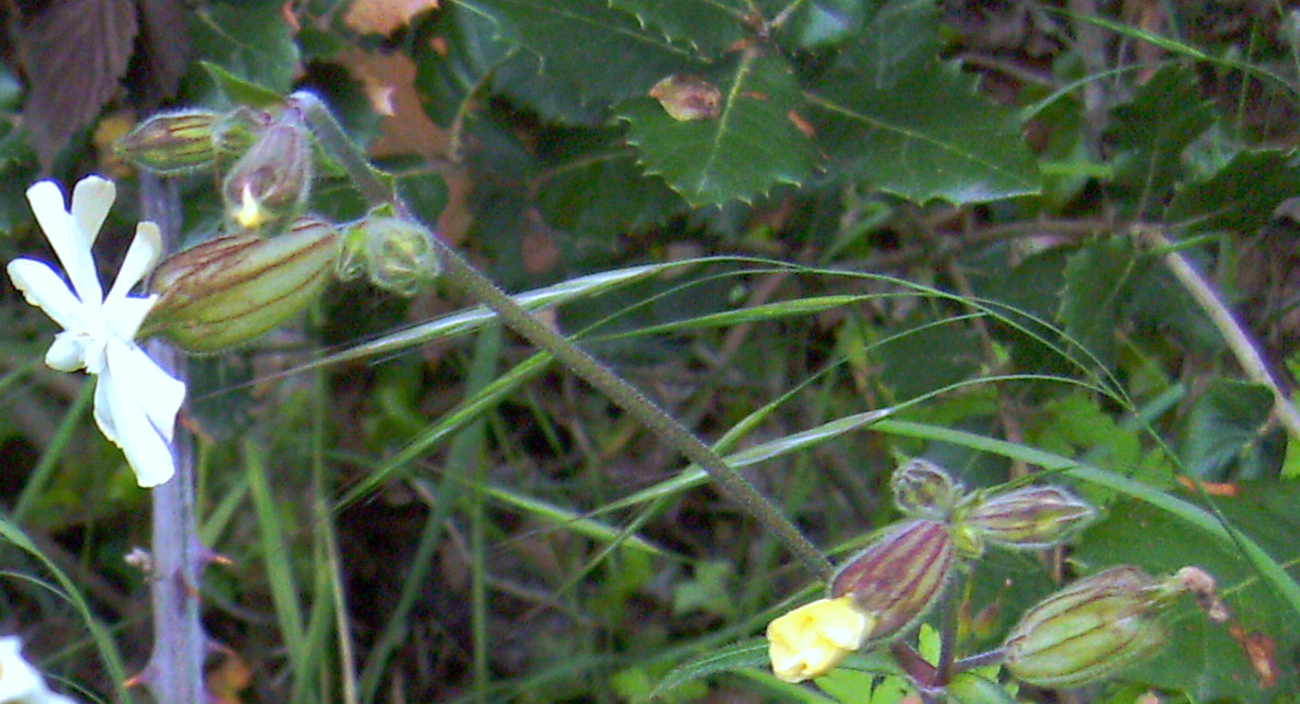 Profile of Silene latifolia, Castelltallat, Catalonia